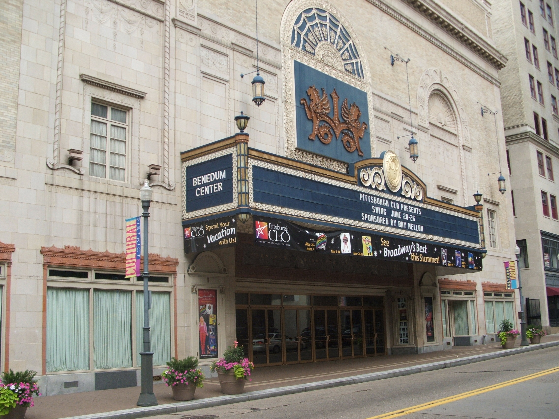 The Benedum Center for Performing Arts in downtown Pittsburgh, Pennsylvania, United States. Built in 1926 as the Stanley Theater, it is listed with the adjacent Clark Building on the National Register of Historic Places.